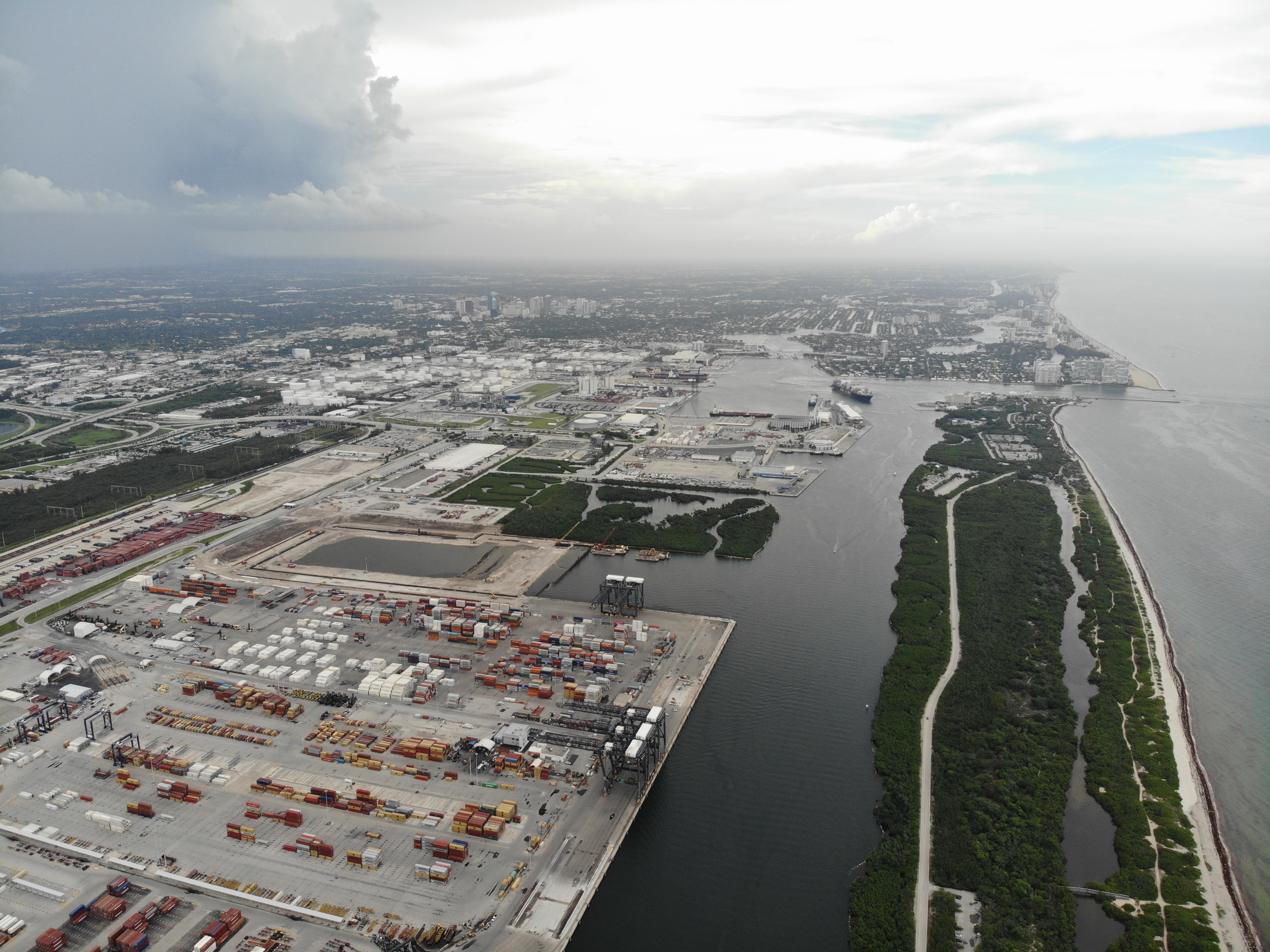 Aerial Picture of Port Everglades, Florida